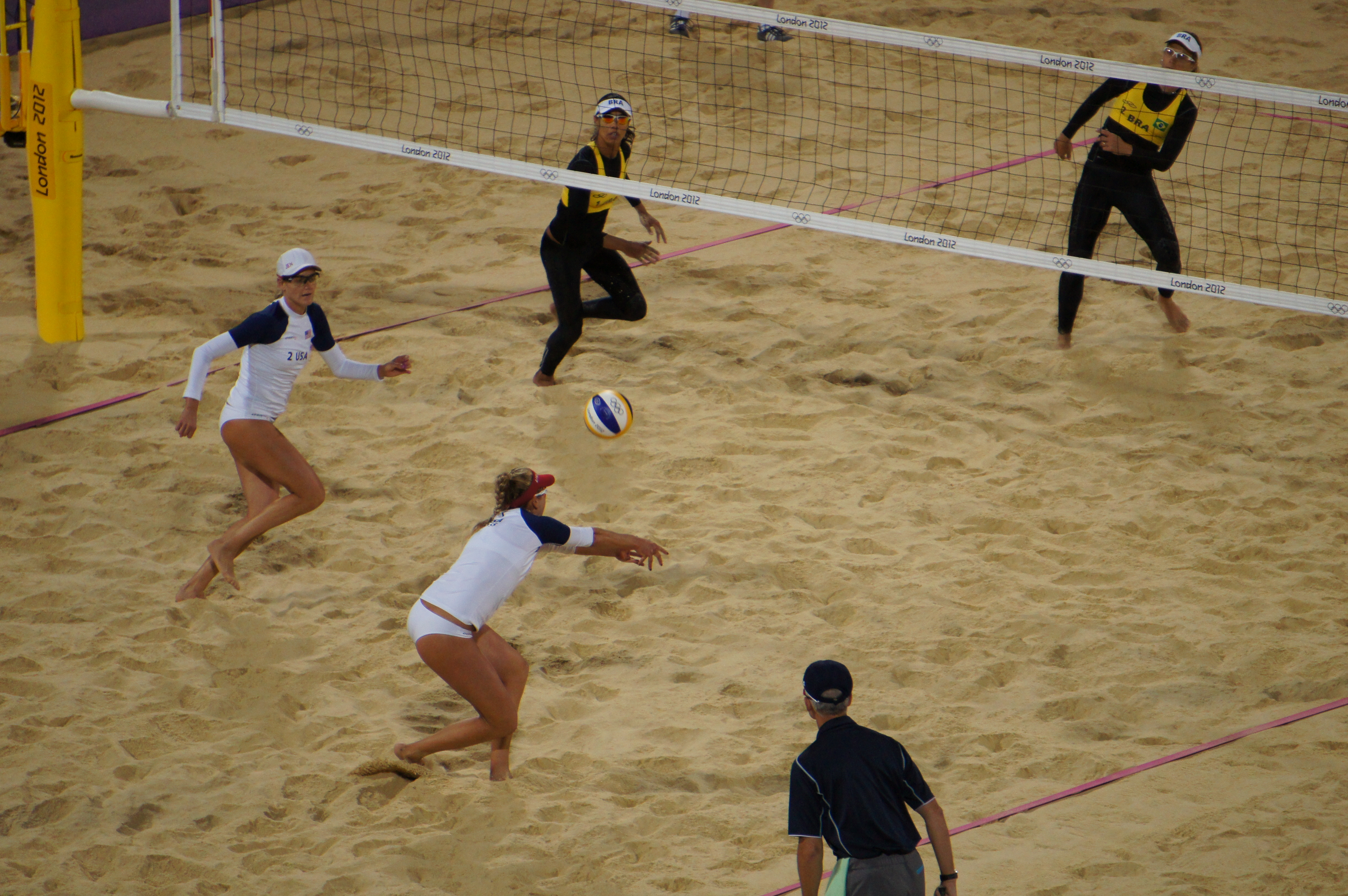 London 2012 Beach Volleball Brazil v USA